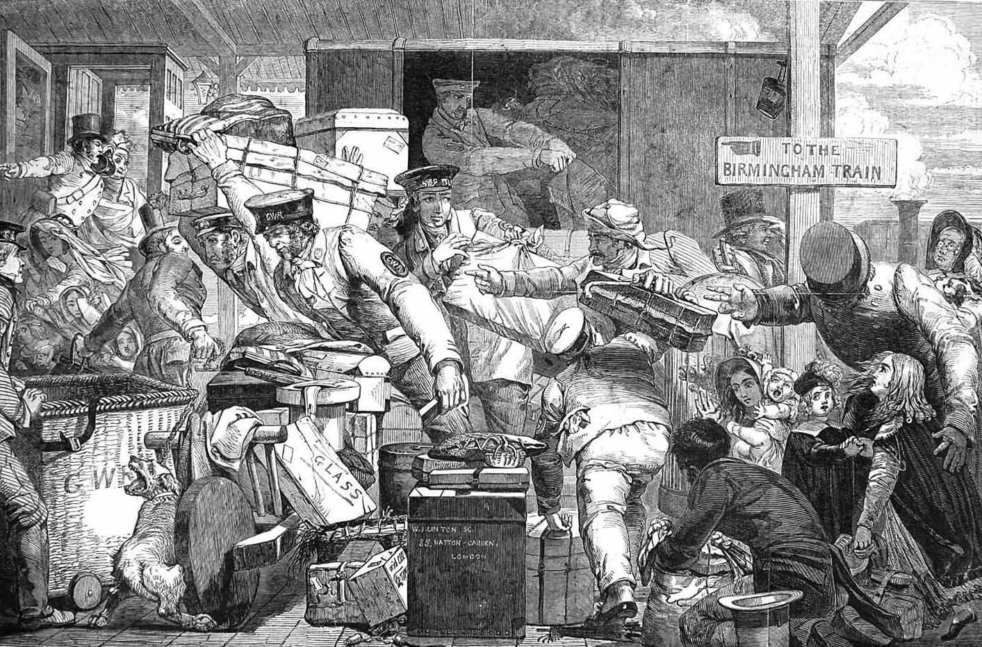 Political cartoon depicting the evils of the break of gauge on the railway at Gloucester in 1846. In historical hindsight it is known that the chaotic nature of transloading at Gloucester in the 1840s was deliberately maximized as a spectacle to serve as a political weapon in the Gauge War, and that ways of mitigating it were available but were not implemented. Regardless, at the time such chaos was widely interpreted as an obvious lesson in the folly of allowing more than one gauge, and it had real impact on public opinion.